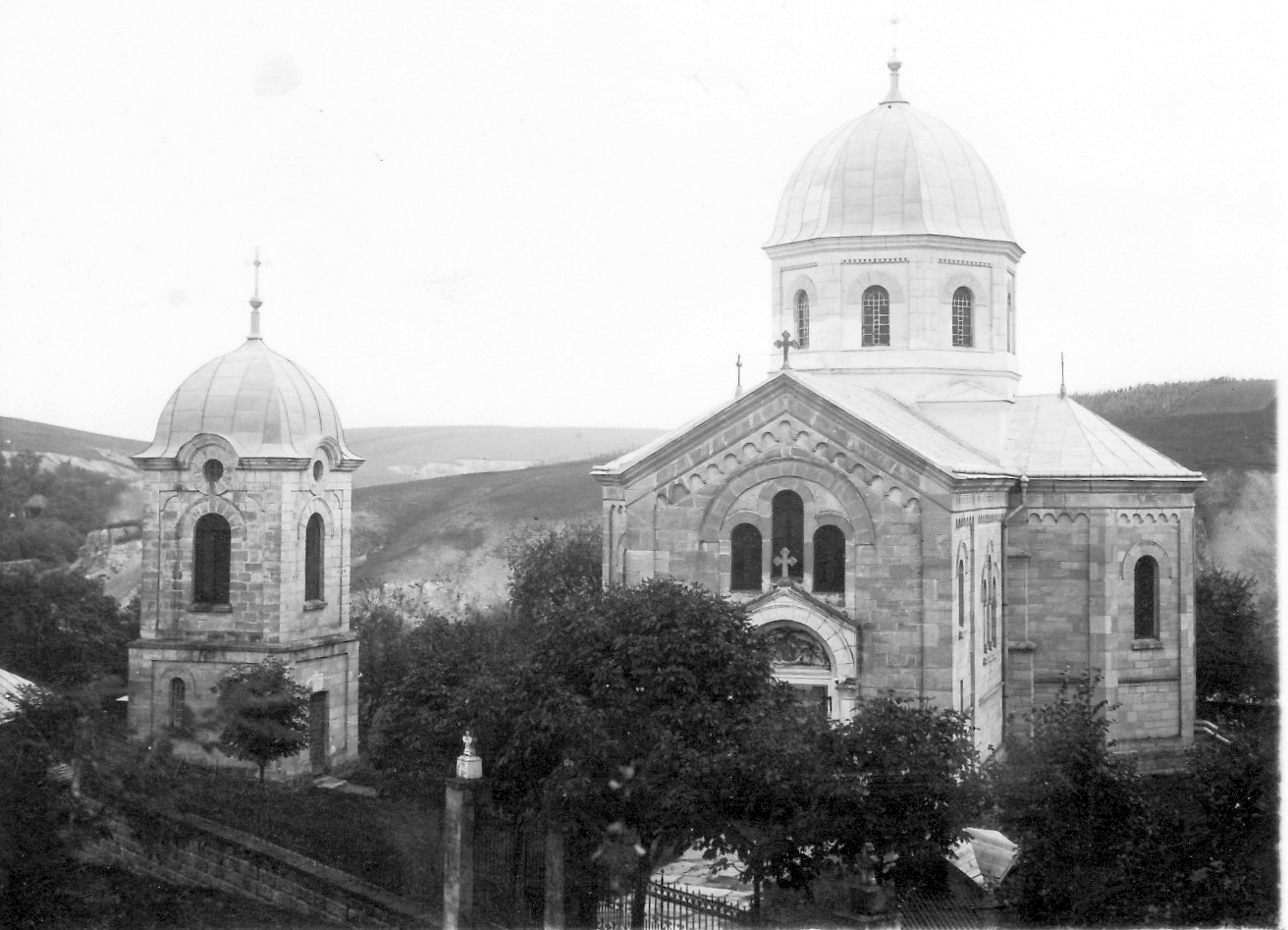 Church in Cincău, Zastavna (Cernăuți region, Ukraine)